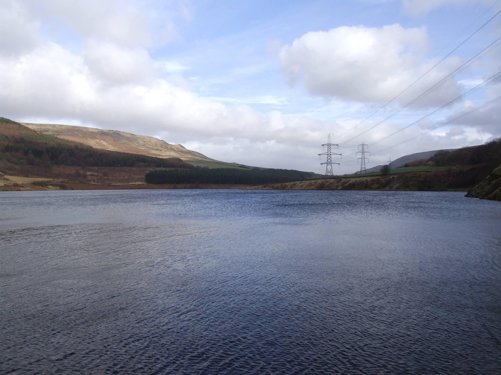 Longdendale in Derbyshire is the valley of the River Etherow. The Longdendale Chain is a series of reservoirs built to provide drinking water forManchester Looking up the Rhodeswood Reservoir